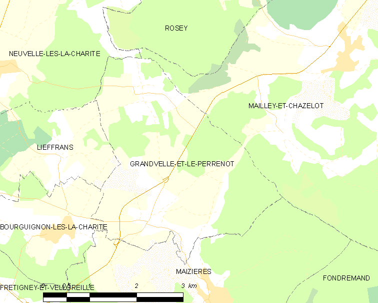 Map of French municipality